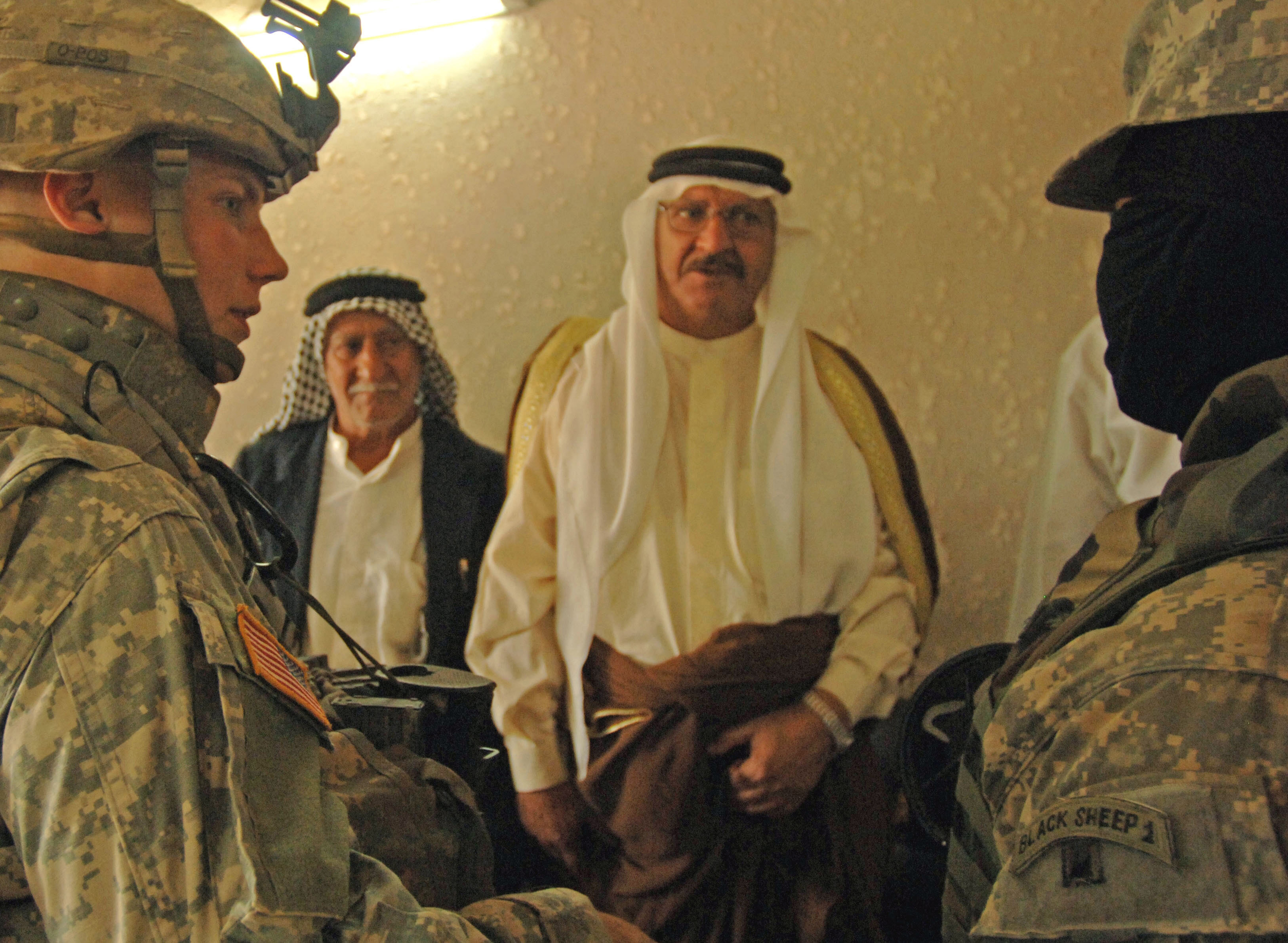 Baqubah, Iraq (Aug. 30, 2006) - U.S. Army Lt. Alan Boyes, right, with Charlie Company, 1st Battalion, 68th Armored Regiment, 4th Infantry Division, talks to local Iraqi council members through an interpreter in a village near Baqubah, Iraq. U.S. Navy photo by Mass Communication Specialist 1st Class Jackey Bratt (RELEASED)